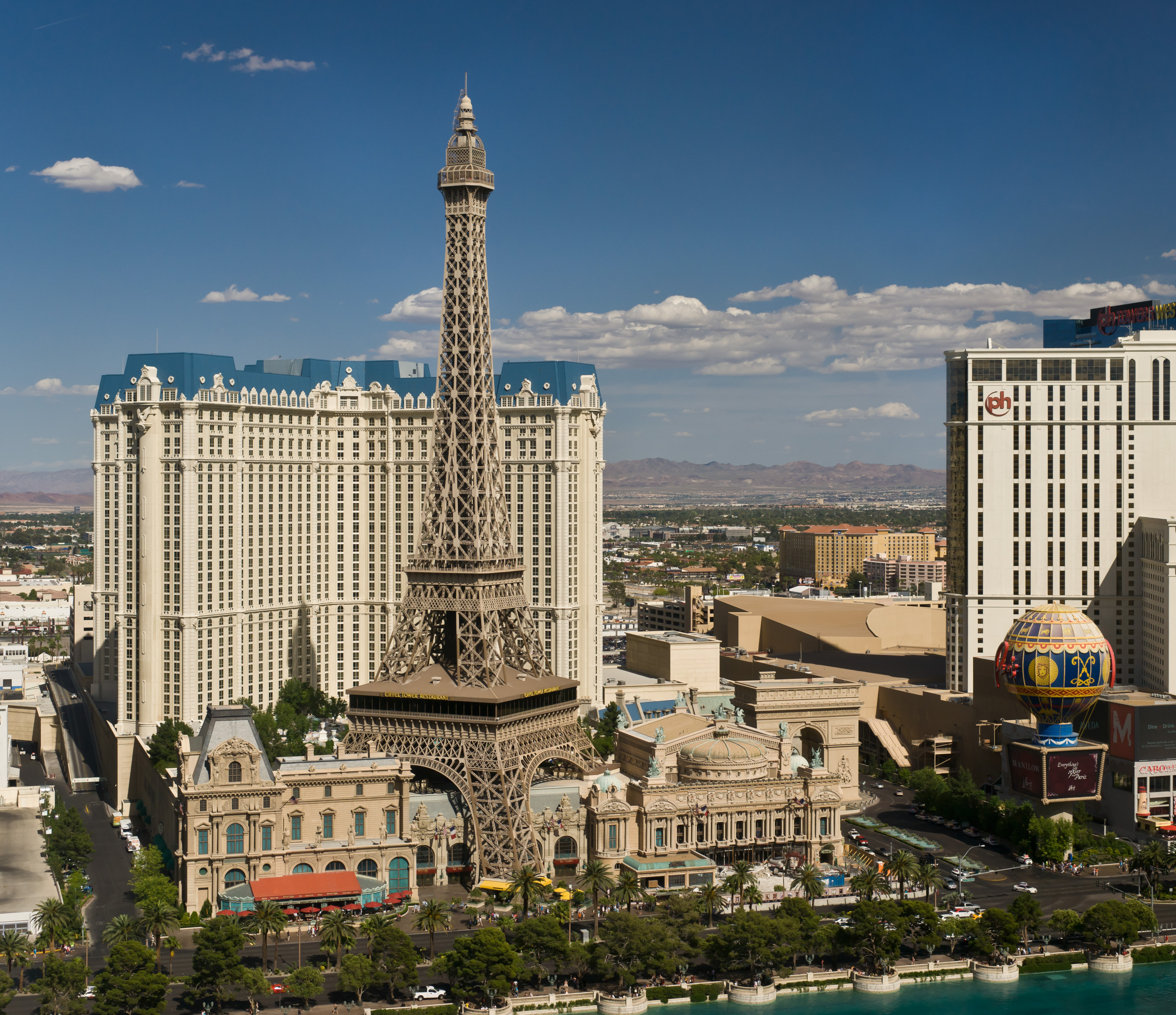 Image of the hotel 'Paris Las Vegas' as seen from the hotel 'The Bellagio' on a sunny afternoon in May. Both hotels are at the strip in Las Vegas.